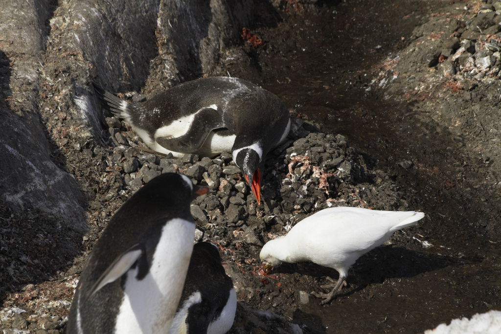 White-faced Sheathbill feeding on regurgitated krill